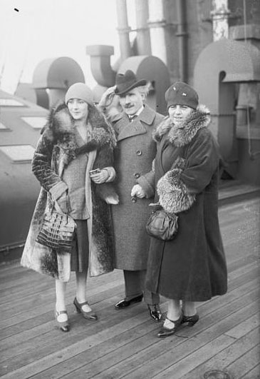 Toscanini and Wife